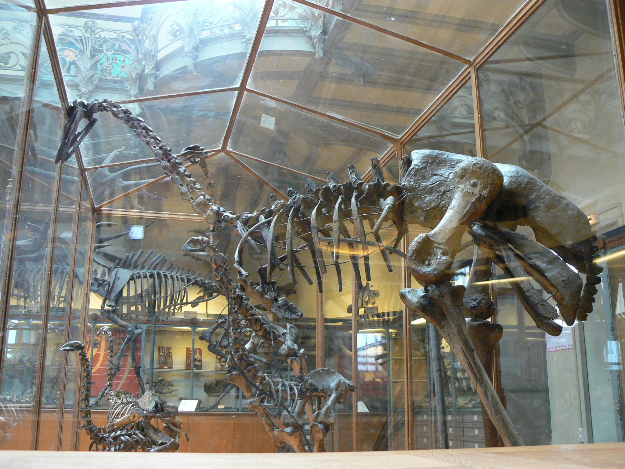 Aepyornis (elephant bird).